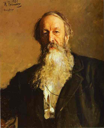 Vladimir Stasov's portrait by Илья Ефимович Репин)